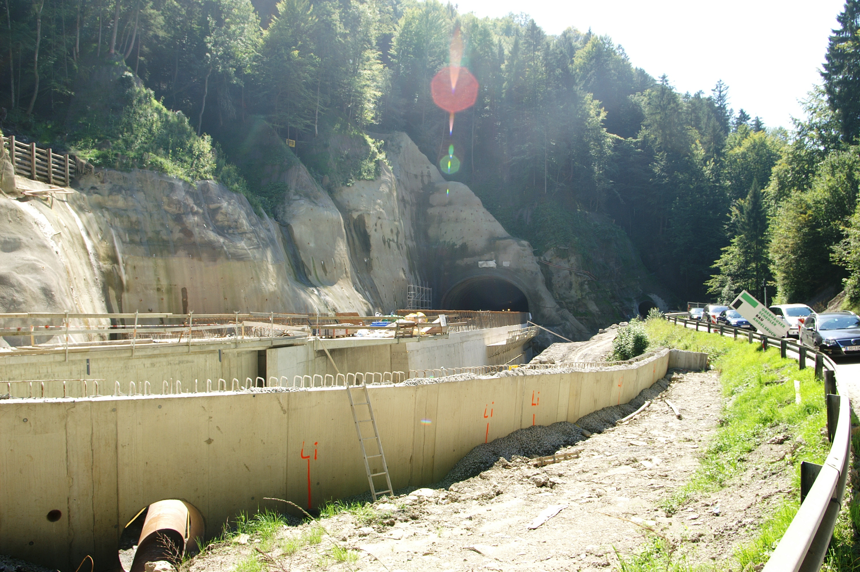 Tunnel portal east of the Achraintunnel in the municipality Dornbirn, Vorarlberg, Austria about 591 masl., during construction.